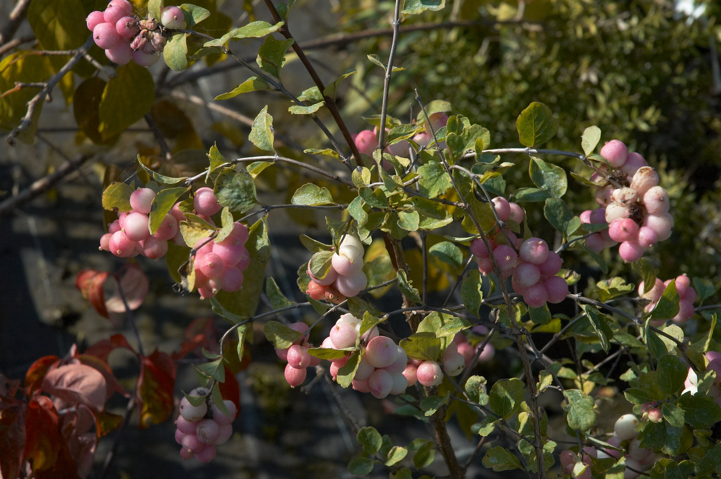 Symphoricarpos ×doorenbosii 'Mother of Pearl'